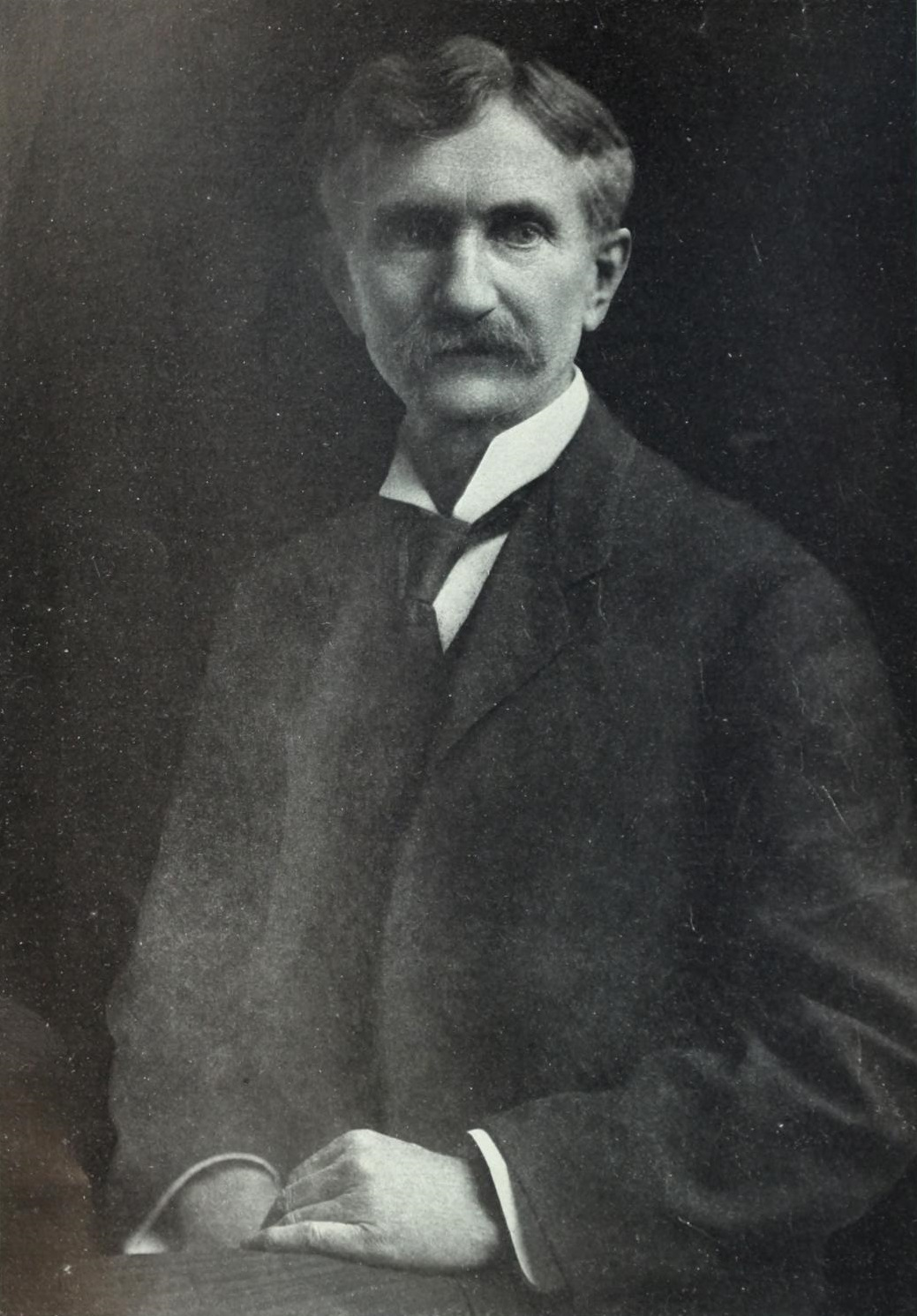 Portrait of N. O. Nelson